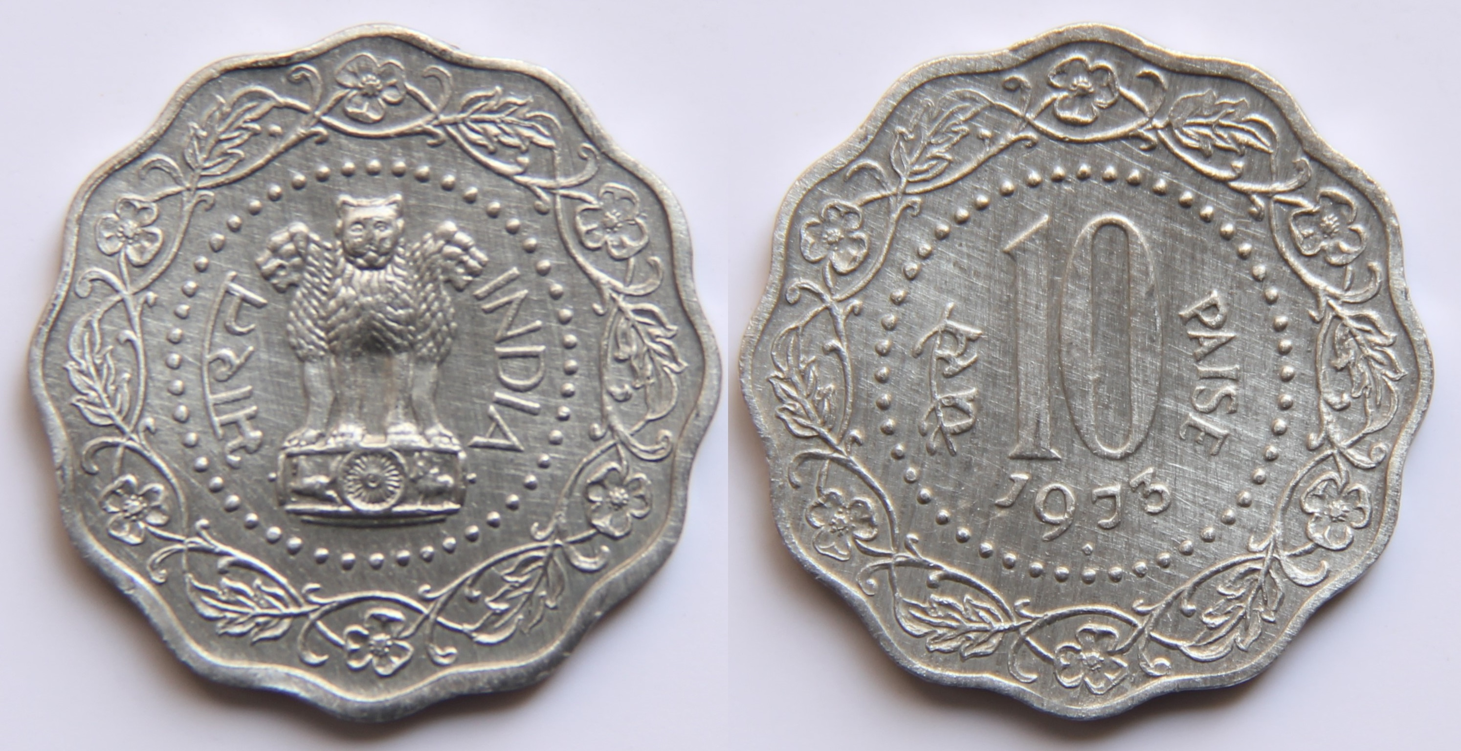 Face value: 10 Paise. Country: India. Year of minting: 1973. Metal: Aluminium. Shape: Scalloped. Obverse: State Emblem of India and country name in Hindi / English surrounded by circle of beads and wreath. Reverse: Face-value and year surrounded by circle of beads and wreath. Edge: Smooth. Weight: 2.27 g. Diameter: 25.91 mm. Thickness: 1.92 mm. Orientation: Medal alignment ↑↑. Total mintage: 1,253,538,462 (1971 to 1978). Engraver: Not known. Comment: Monetary status: Demonetized 30 Jun 2011. Data source: This webpage.